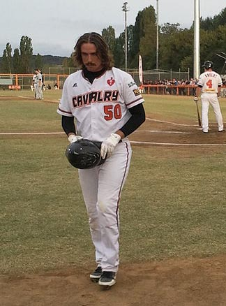 Canberra Cavalry game shirts, 2012-13. (L-R) front - Jack Murphy (baseballer) (50) ; back - Marcus Knecht (baseballer) (4), Michael Wells (baseballer) (26).